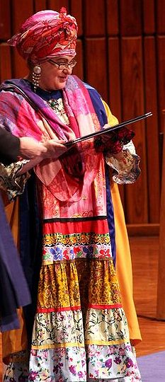 cropped version of File:Camila Batmanghelidjh, April 2008.jpg